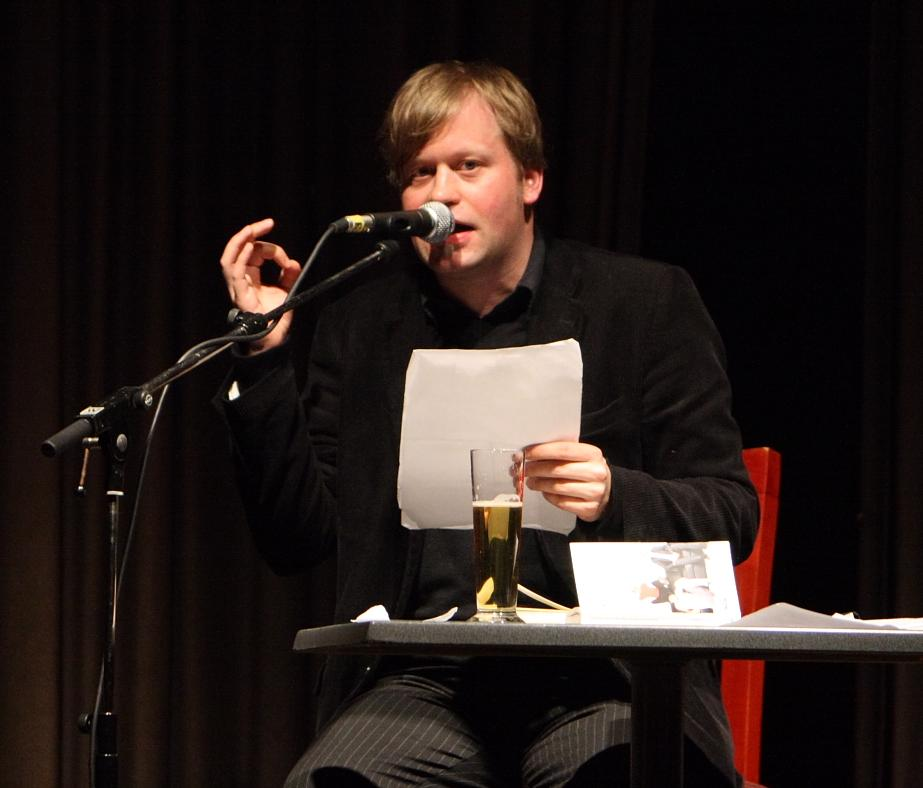 The Author Dirk Bernemann at a reading.